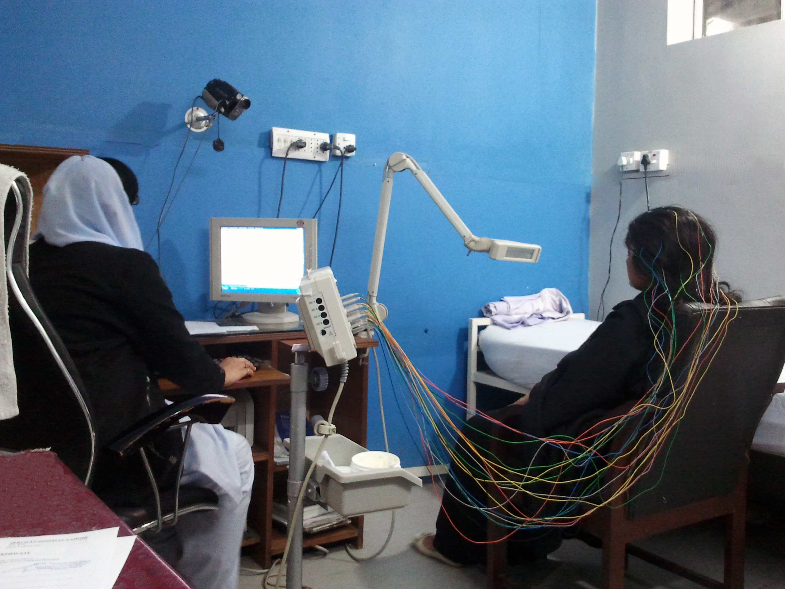 Charting the brain's electrical activity